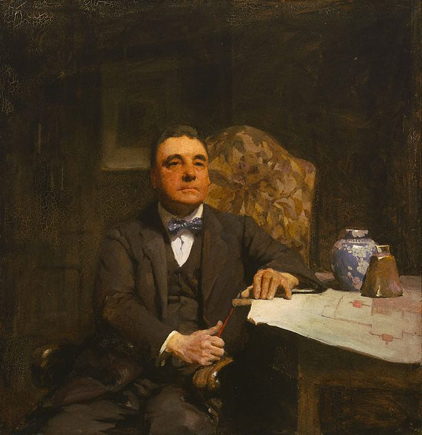 H. Desbrowe Annear, the 1921 Archibald Prize winning painting by William Beckwith McInnes.